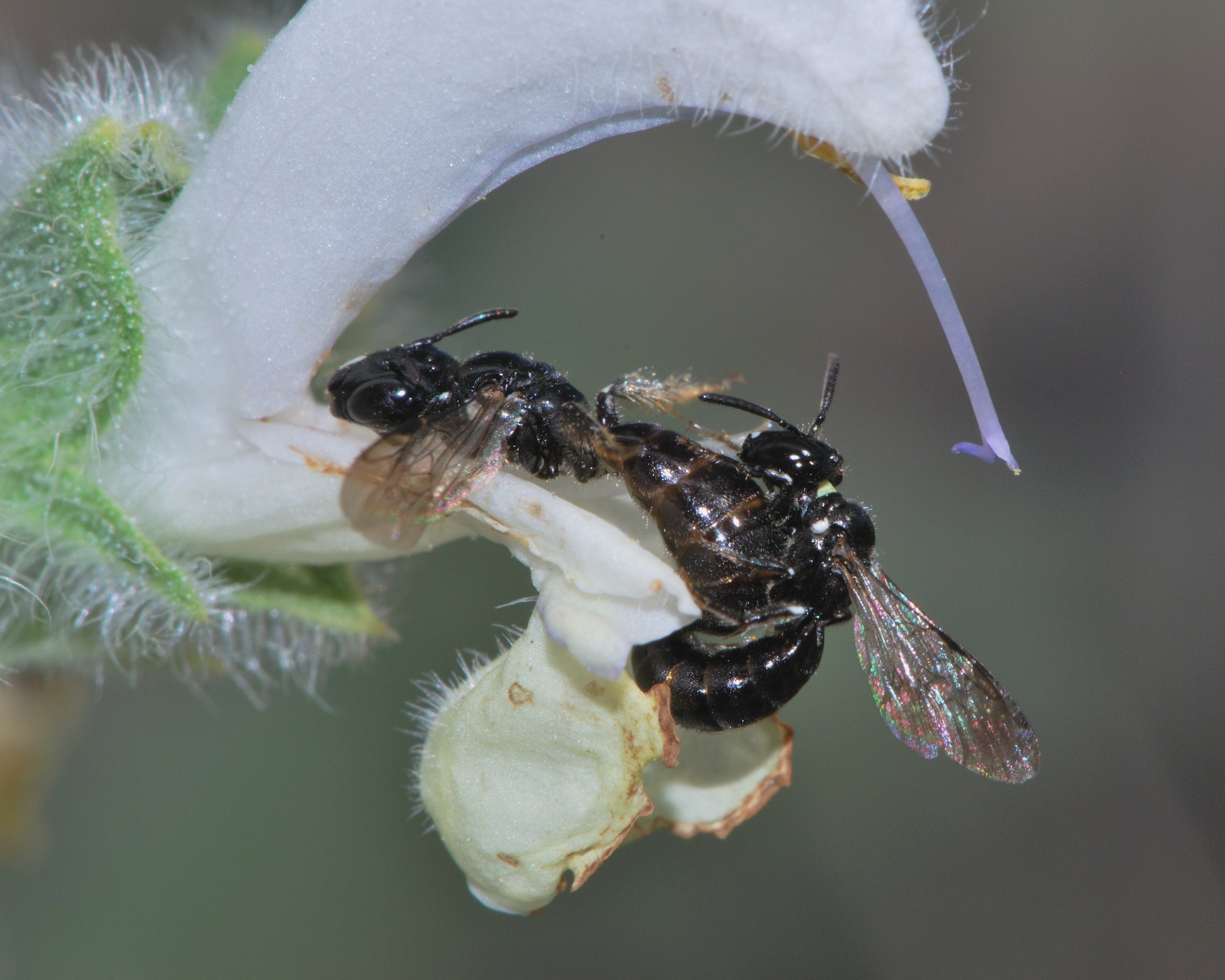 Ceratina cucurbitina copulating on a Salvia dominica flower, Judean Foothills, Israel, January 16, 2010.